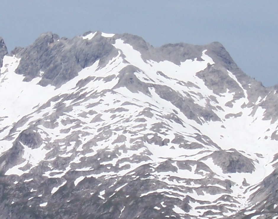 Steinschartenkopf, Austria, 2615 m